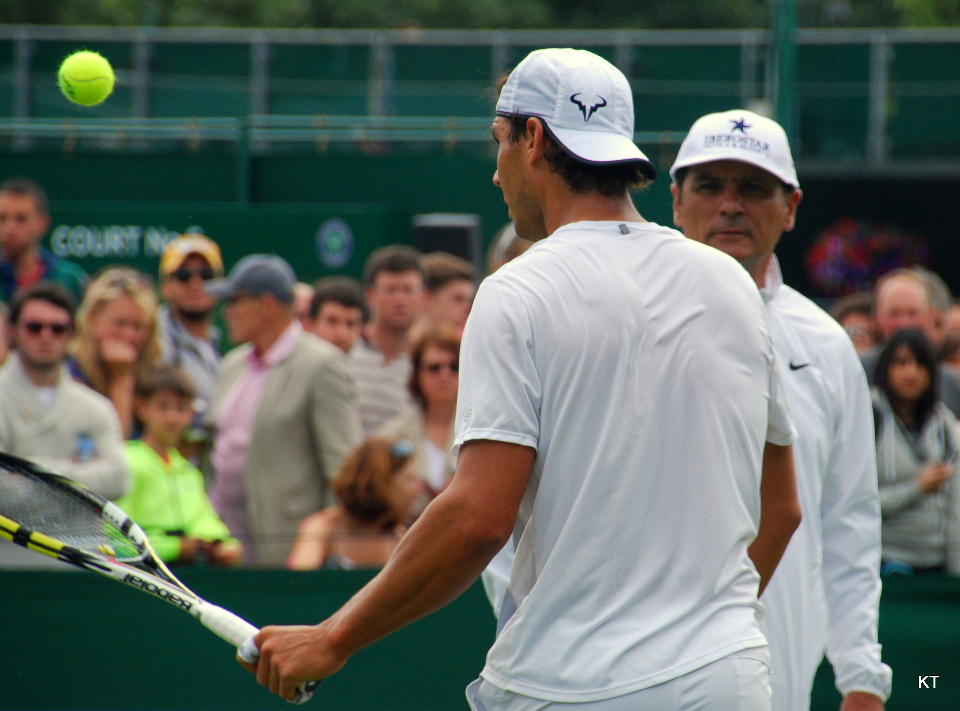 Rafael Nadal practising with Marc Lopez before his 2nd round match with Lukas Rosol. Day 4 of Wimbledon 2014.